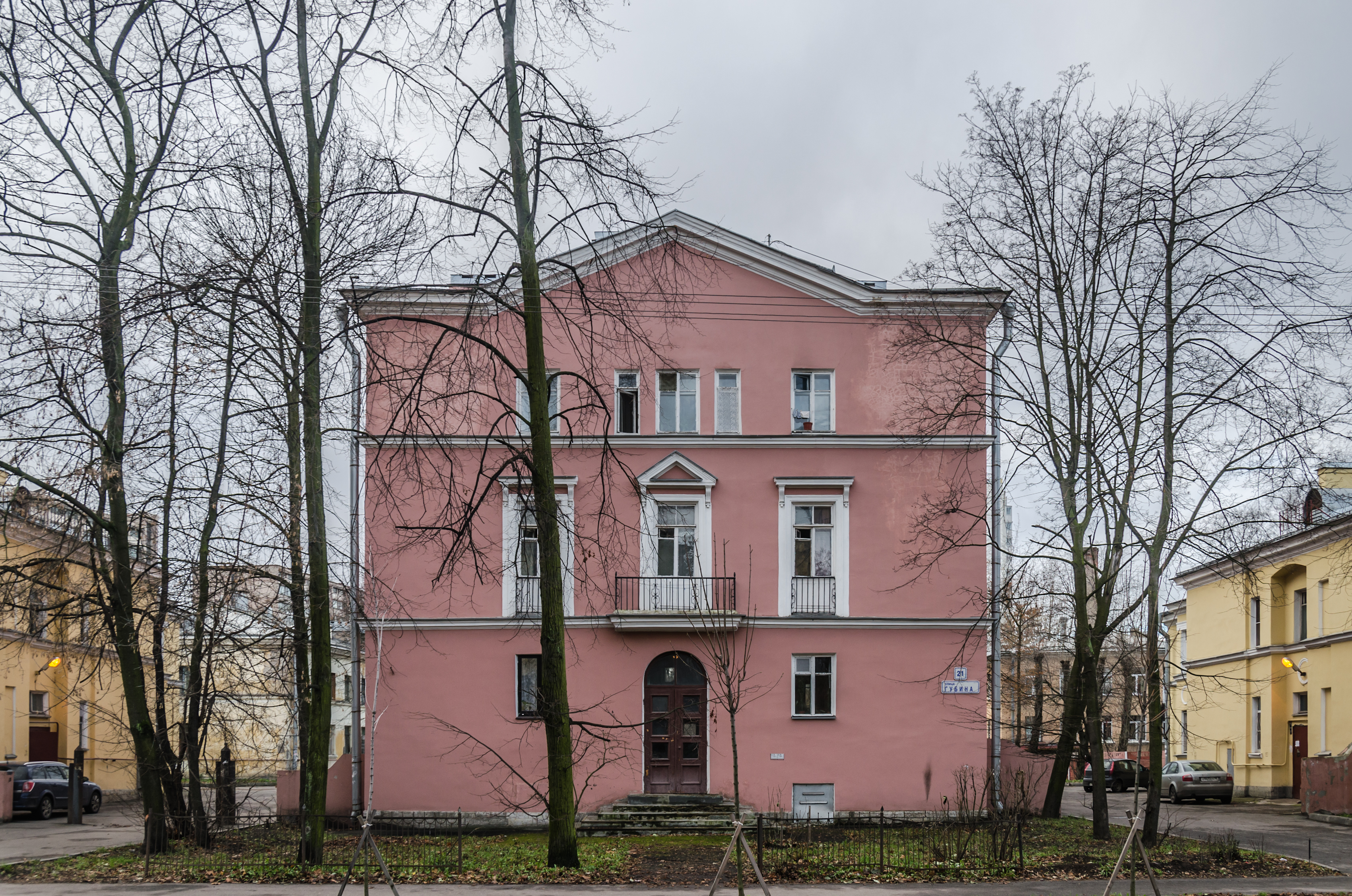 Gubina street in Saint Petersburg